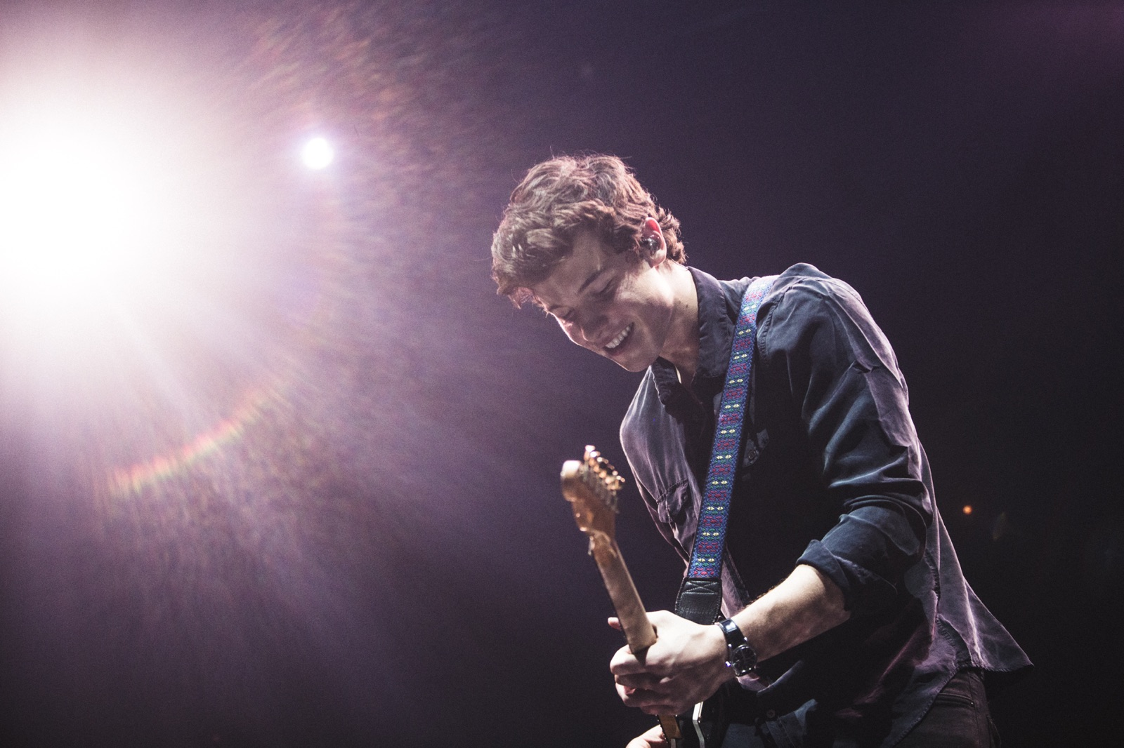 own work photograph of Shawn Mendes in 2017